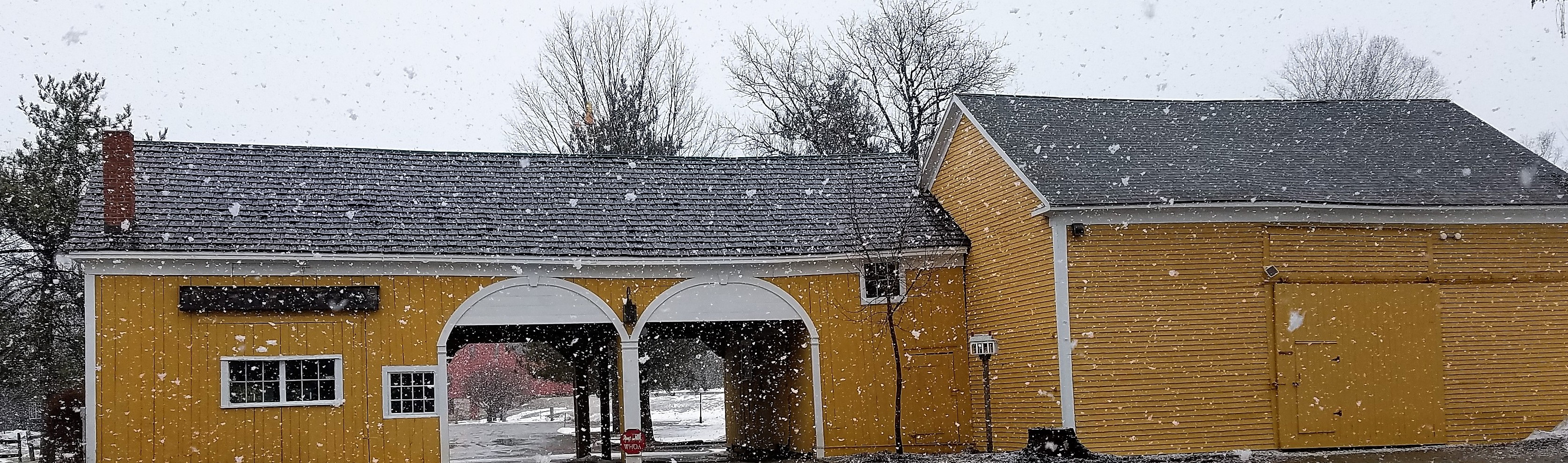 A Vermont Snow Storm!